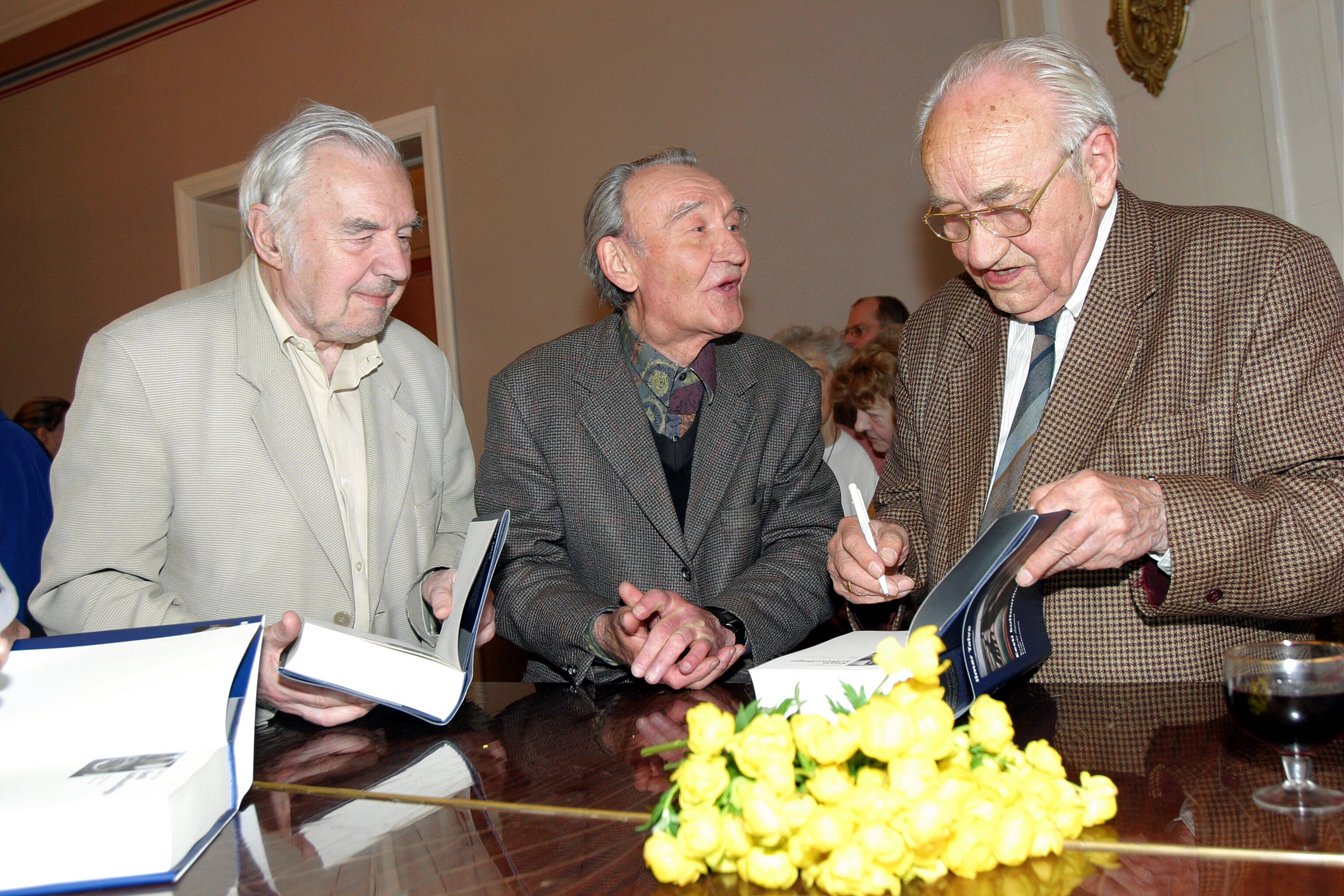 From left to right: Leo Metsar, Abel Nagelmaa and Ilmar Talve.